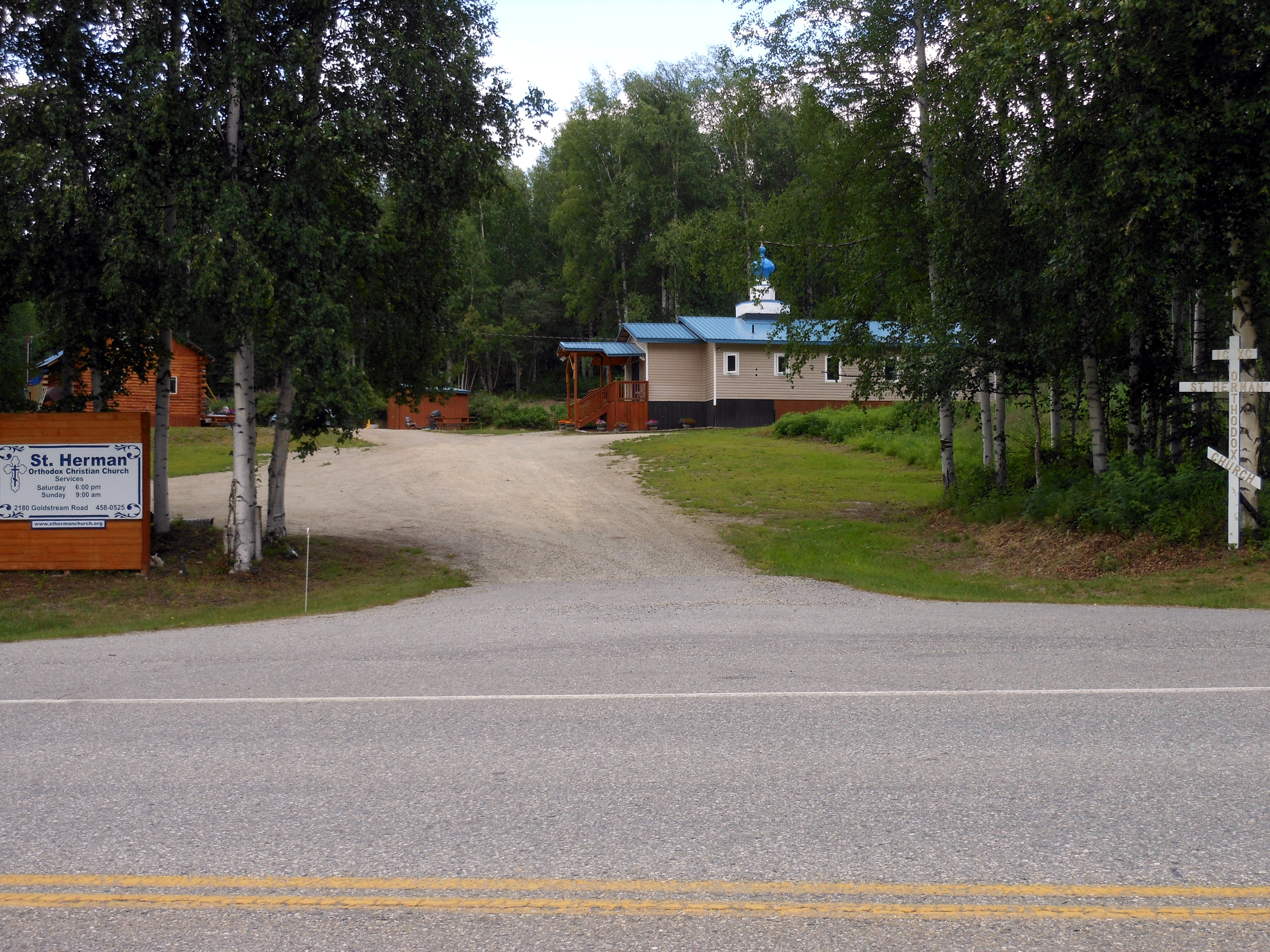 St. Herman Orthodox Christian Church, 2180 Goldstream Road, outside of Fairbanks in the Goldstream Valley (aka the census-designated place called Goldstream, Alaska.